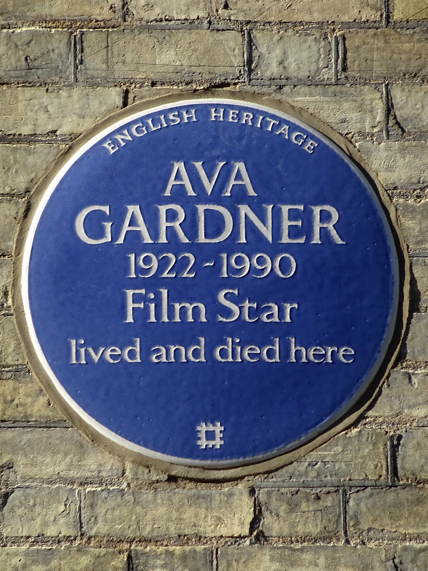 Blue plaque erected on November 4th 2016 by English Heritage at 34 Ennismore Gardens, Knightsbridge, London SW7 1AE, City of Westminster